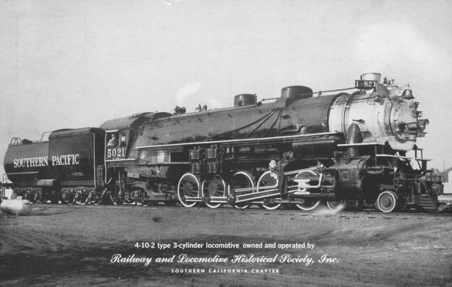 Photo of Southern Pacific SP-2 locomotive 5021. The 4-10-2 locomotive is now owned by the Railway and Locomotive Historical Society of southern California.